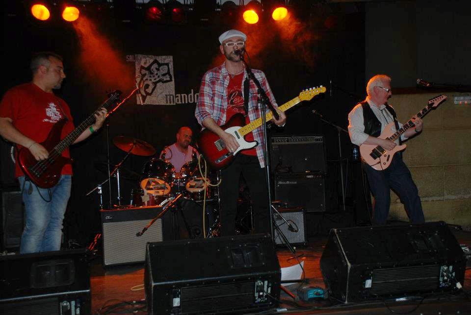 A photograh take in a live concert of Van Tard. 2012/05 Salamandra. Hospitalet, Barcelona, Spain.